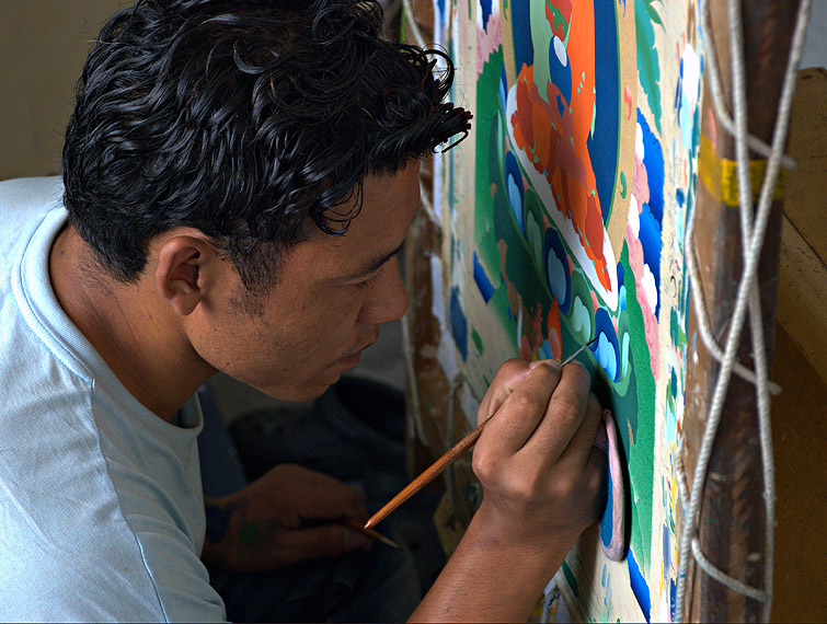 Painter of thangka's at the Norbulingka Institute near Dharamsala, India.